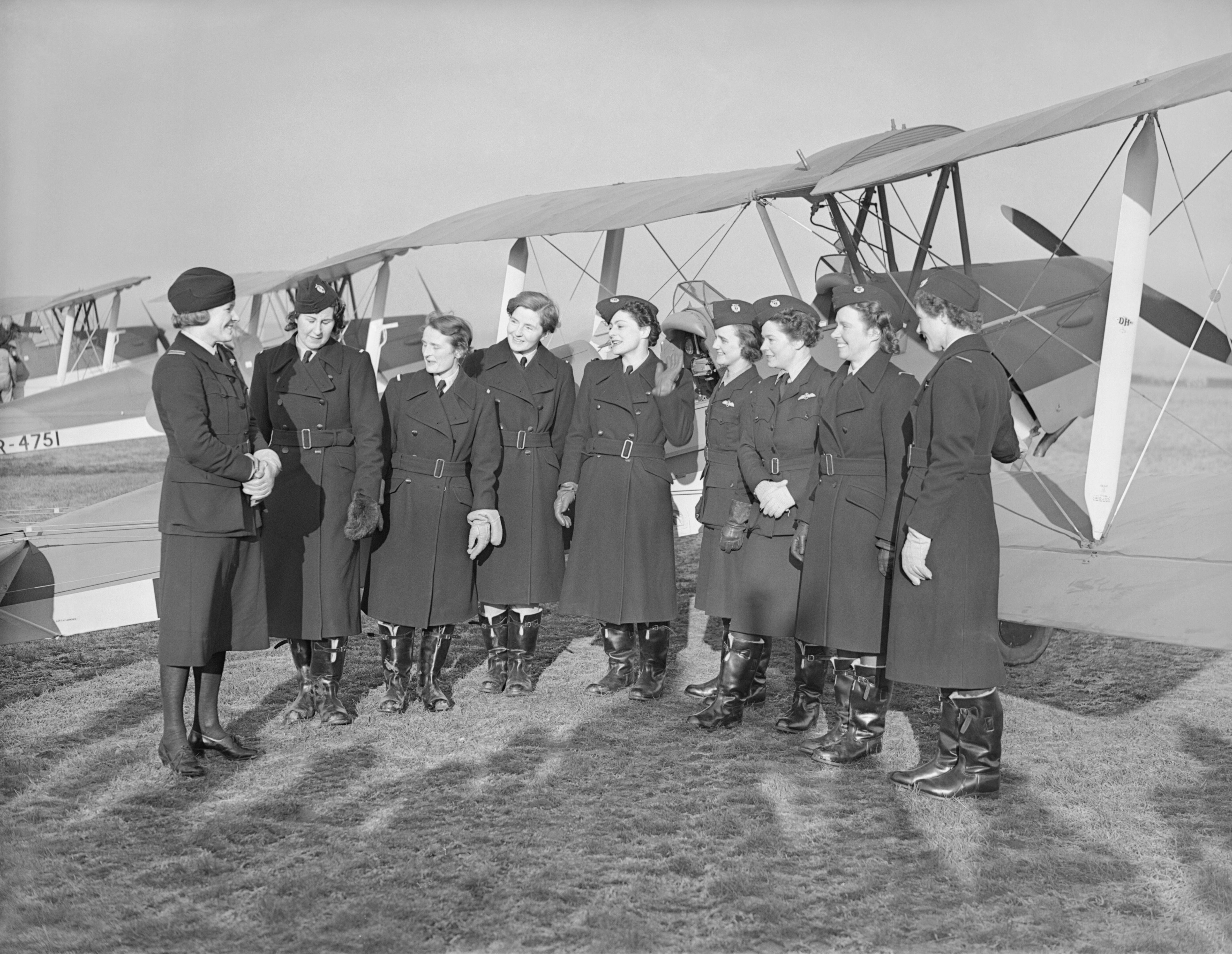 The Air Transport Auxiliary, 1939-1945. Pauline Gower (far left), Commandant of the Women's Section of the ATA, stands with eight other founding female ATA pilots at Hatfield, Hertfordshire, by newly-completed De Havilland Tiger Moths awaiting delivery to their units. The other pilots are; (left to right), Mrs Winifred Crossley, Miss Margaret Cunnison, The Hon. Mrs Margaret Fairweather, Mona Friedlander, Miss Joan Hughes, Mrs G Paterson, Miss Rosemary Rees and Mrs Marion Wilberforce.